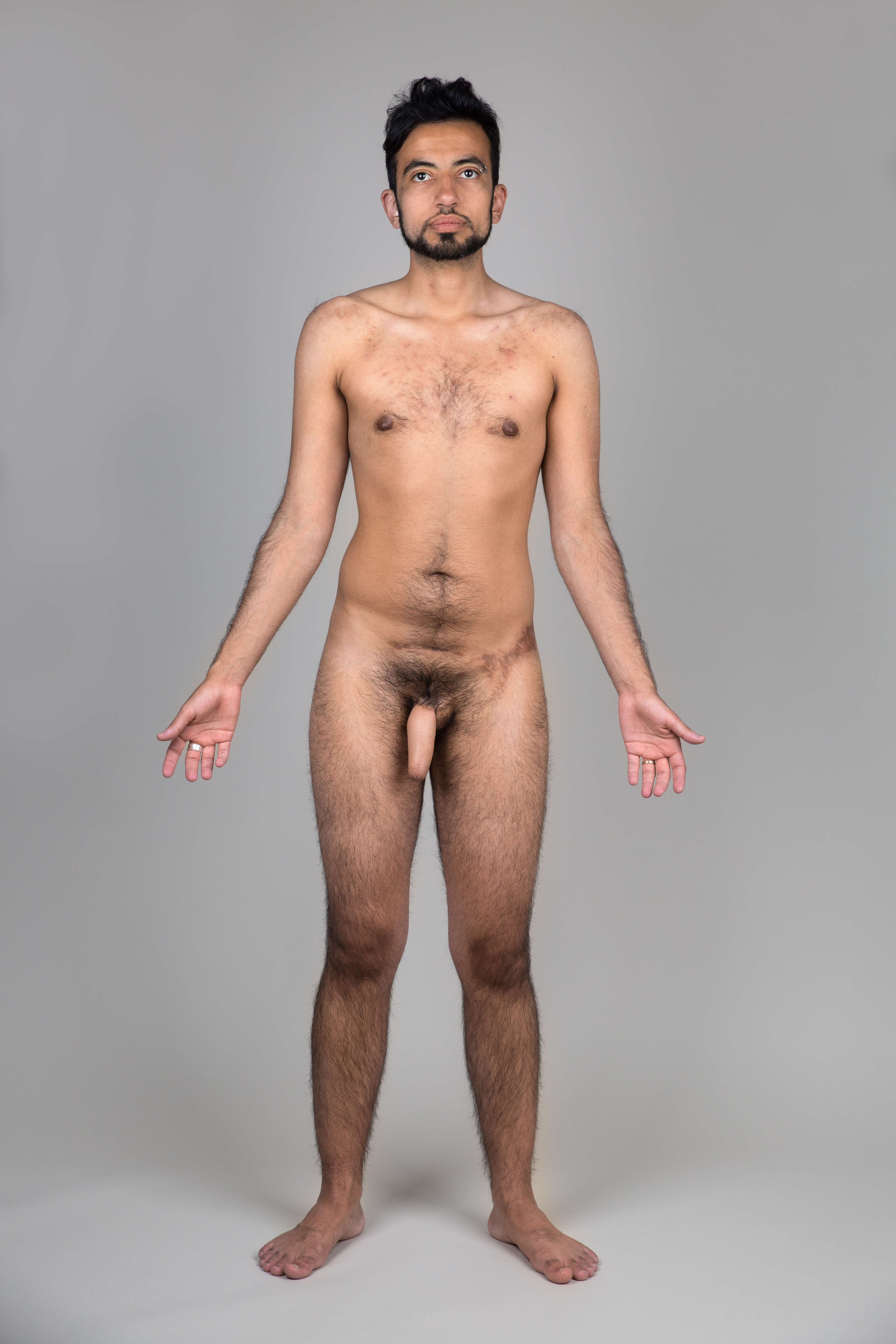 Alexander, 30 years old, after phalloplasty